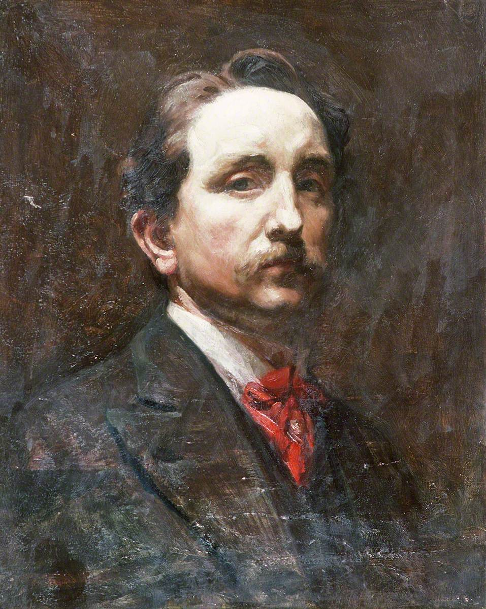 A painting from the Framed Works of Art collection at the National Library of wales.